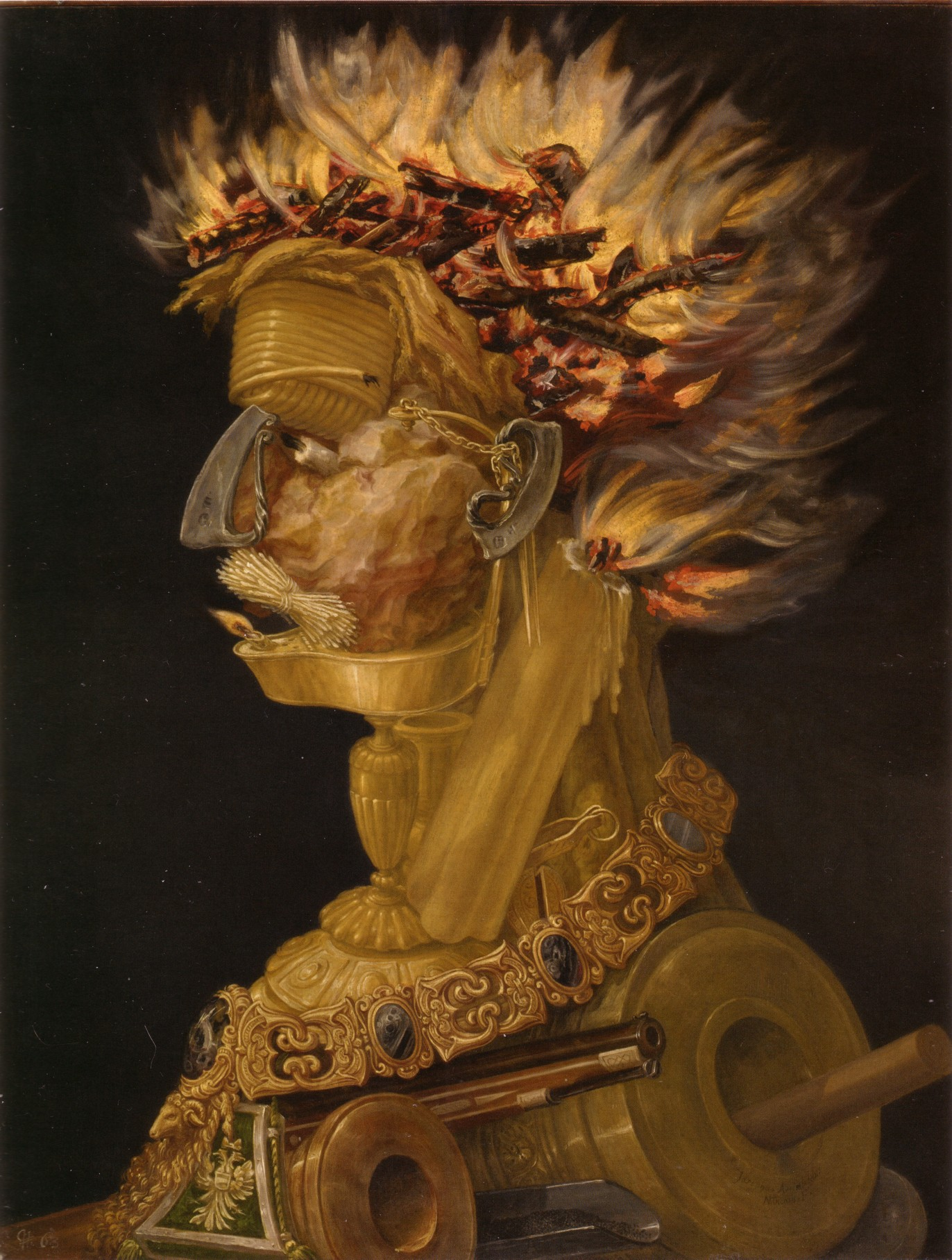 The allegory of Fire combines objects that are related to fire. The cheek is formed by a large firestone, the neck and chin are formed by a burning candle and an oil lamp, the nose and ear are contoured by firesteels; a blond moustache is formed by a crossed bundle of wood shavings for kindling, the eye is an extinguished candle stub, the forehead area is a wound-up fuse, the hair of the head forms a crown of blazing logs. The breast is composed of fire weapons: mortar and canon barrels together with the respective gunpowder shovel and a pistol barrel. Prominently positioned in the picture is the collar of the Order of the Golden Fleece, beneath which the imperial double-eagle can be seen: a clear reference to the Habsburg House and the beneficiary of the series, Emperor Maximilian II.